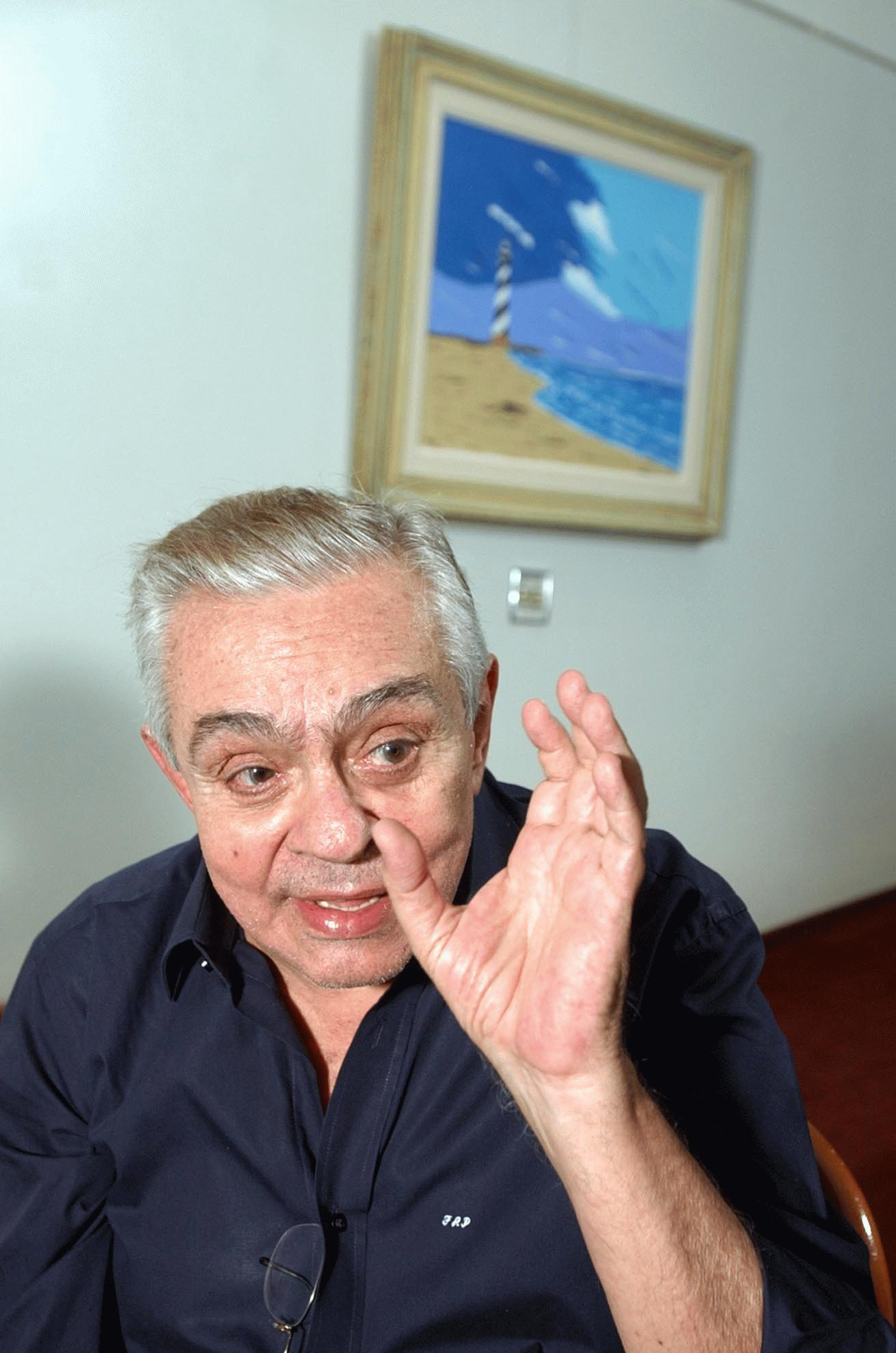 Brazilian actor and humorist Chico Anysio